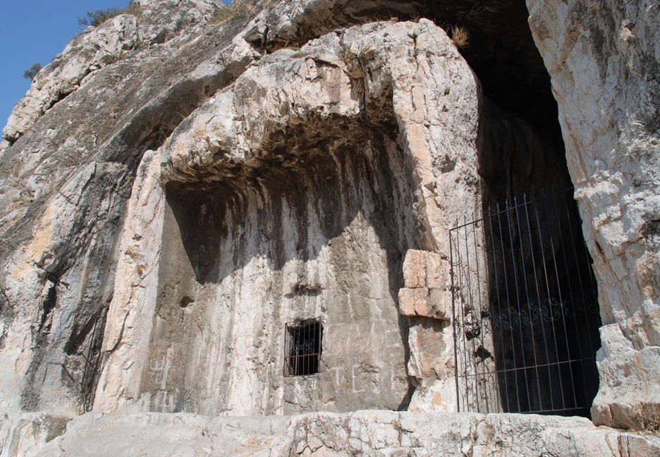 Ancient Tomb